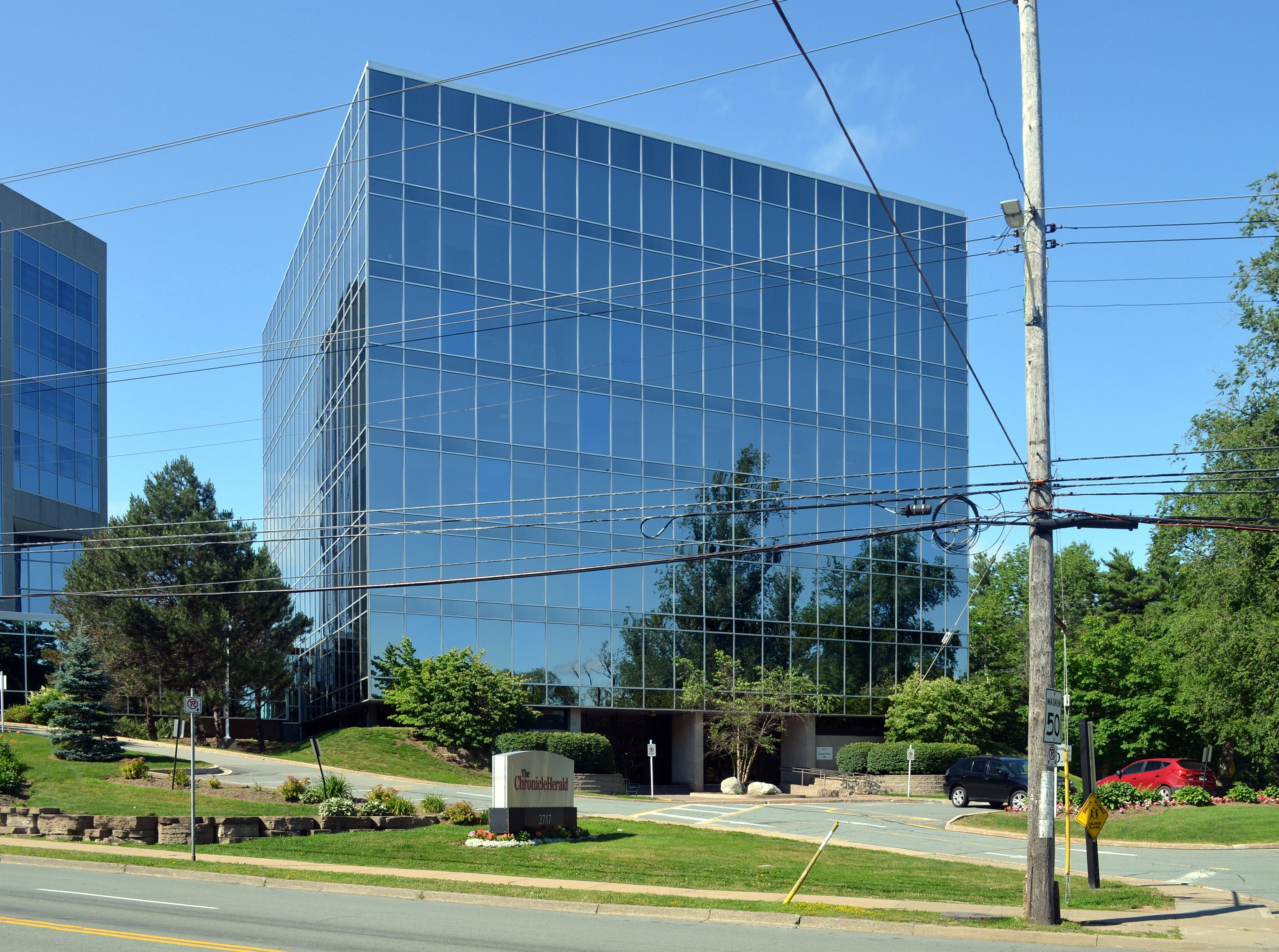 The headquarters of the Halifax Chronicle-Herald newspaper on Joseph Howe Drive, Halifax, NS.